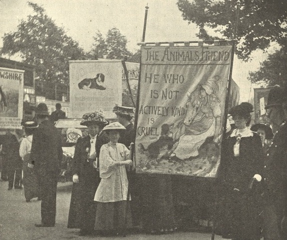 Ernest Bell & Jessey Wade's banner for The Animals Friend – parading through London in July 1909, with John Ruskin's (1819 – 1900) words on it – "He who is not actively kind is cruel." – during the Anti-Vivisection International Congress July 6–10, 1909.